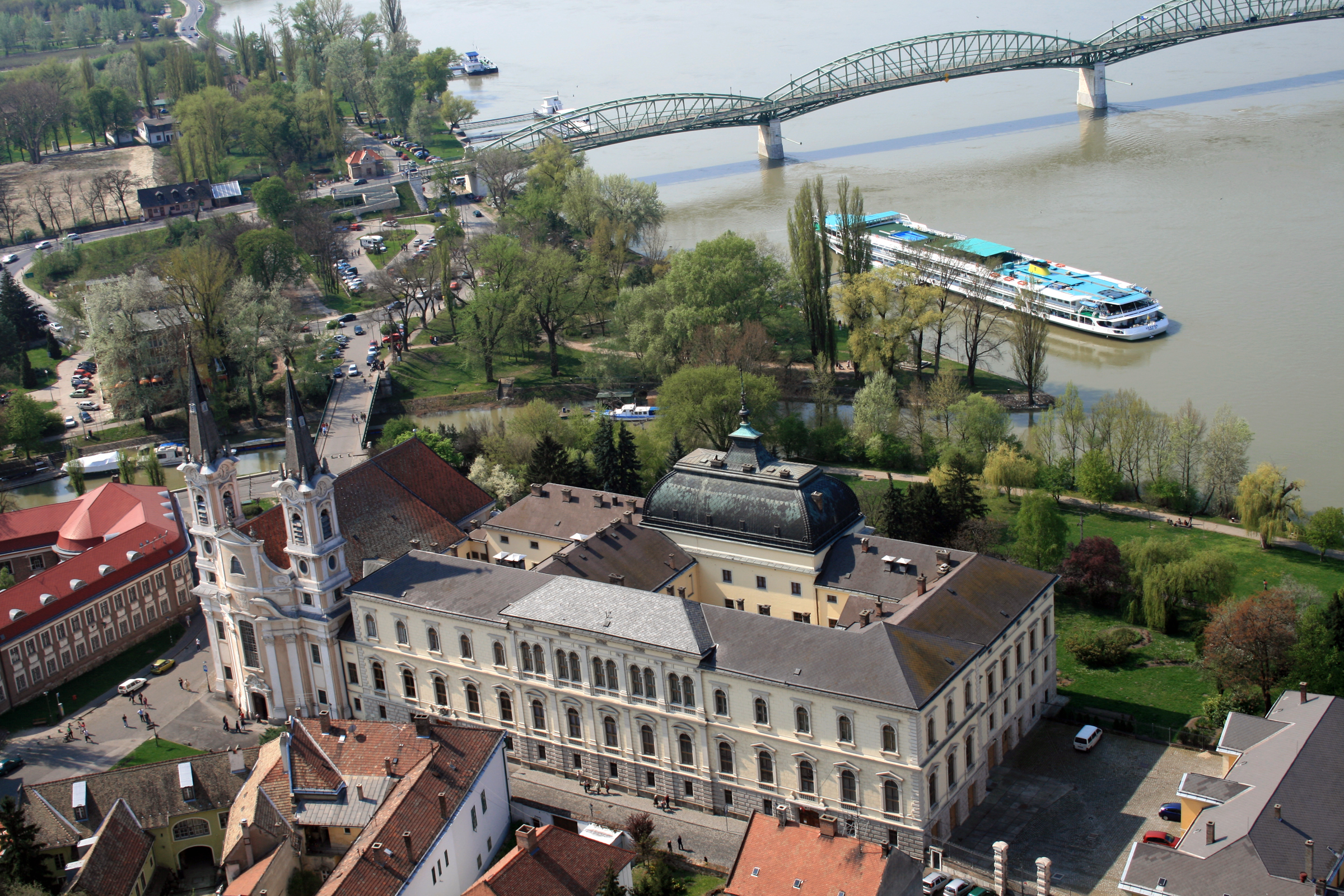 View from tower of Esztergom Basilica, Esztergom, Hungary